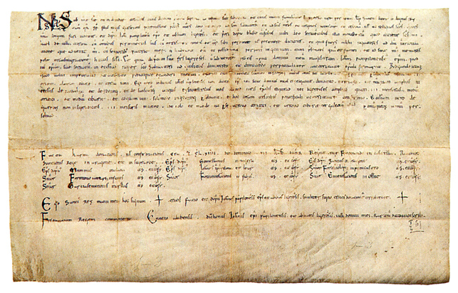 Document issued by Sancho IV